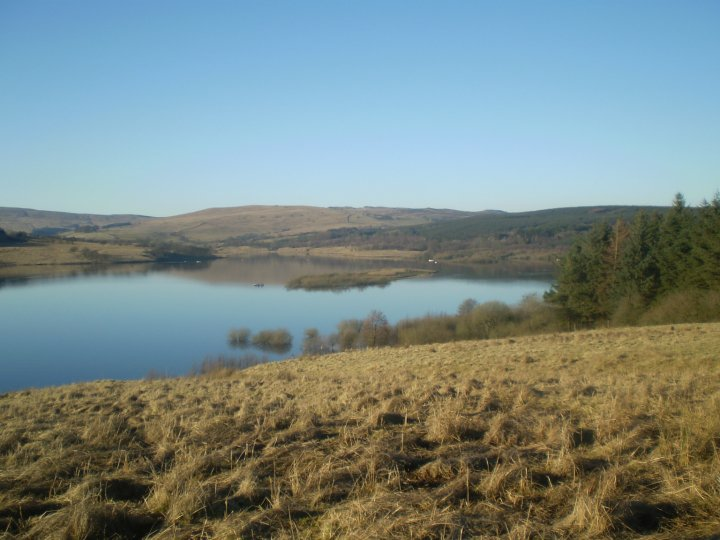 A view of Stocks Reservoir, Forest of Bowland, Lancashire